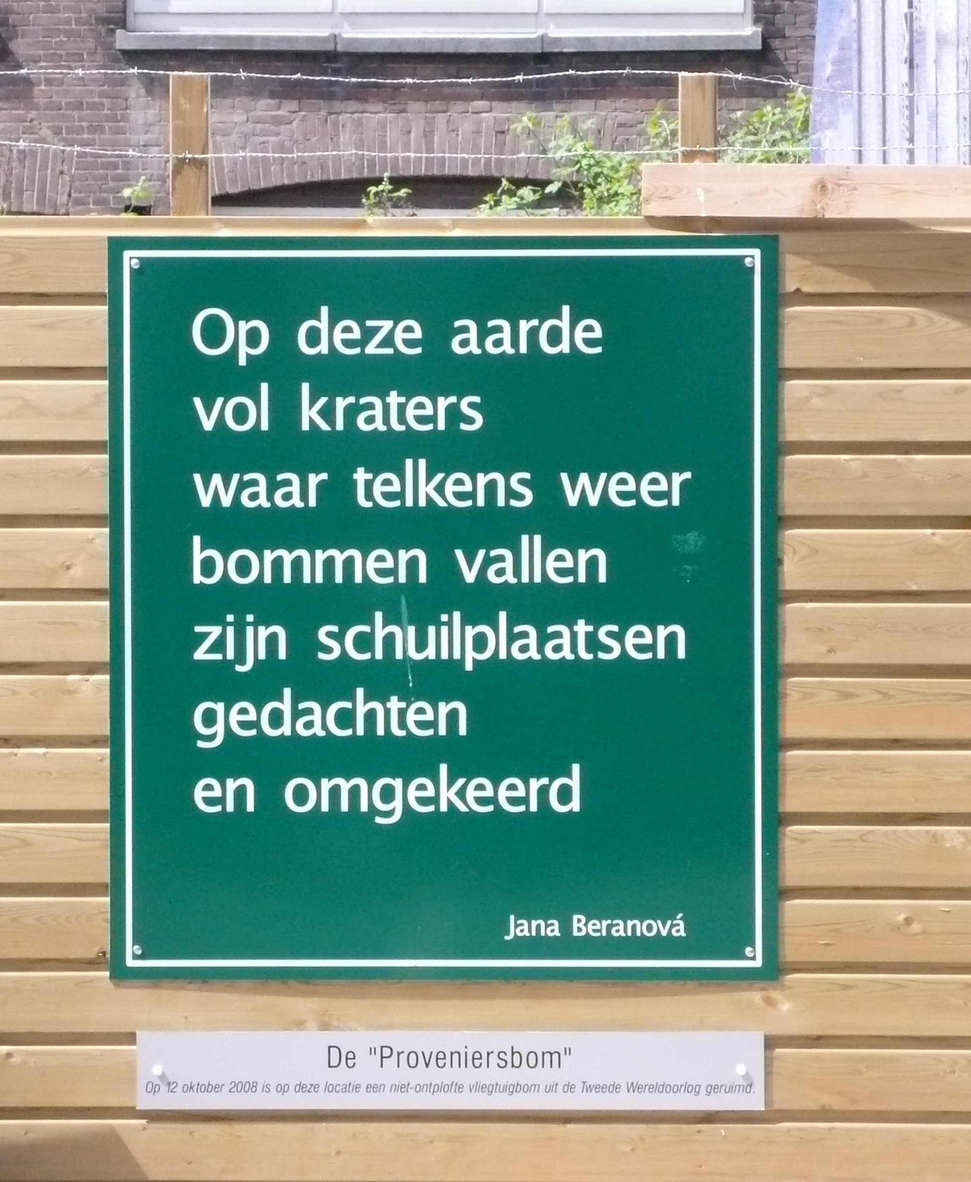 Poem (in Dutch) by Czech poet Jana Beranova at the site where a WO II bomb was found.(Proveniersstraat Rotterdam)